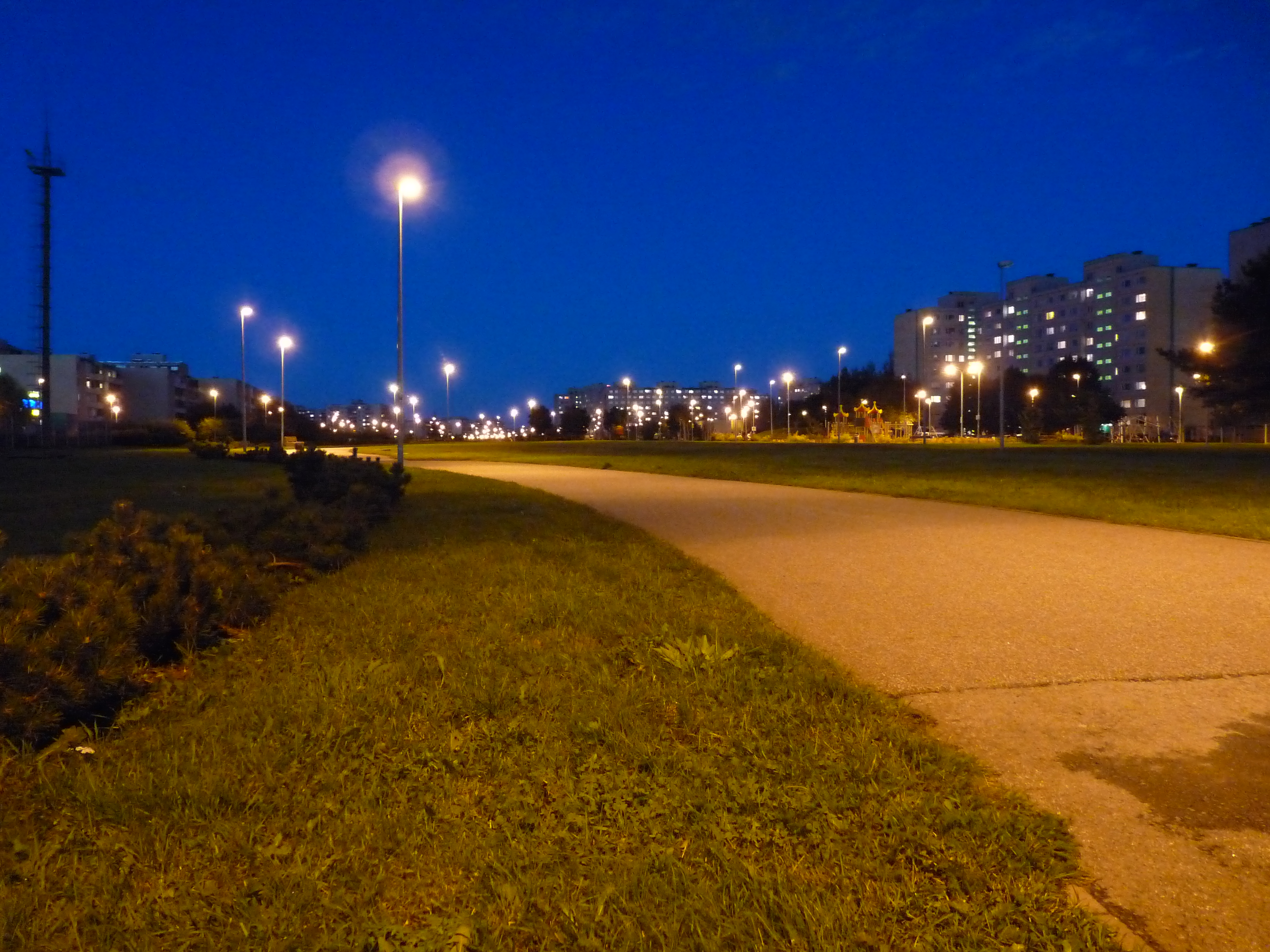 Board between Kuristiku and Mustakivi quarters in Tallinn